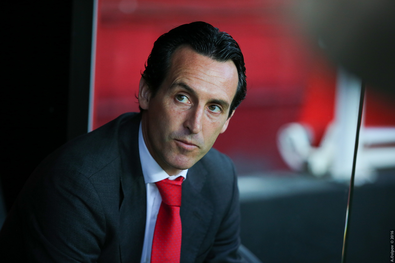 Unai Emery as manager of Sevilla